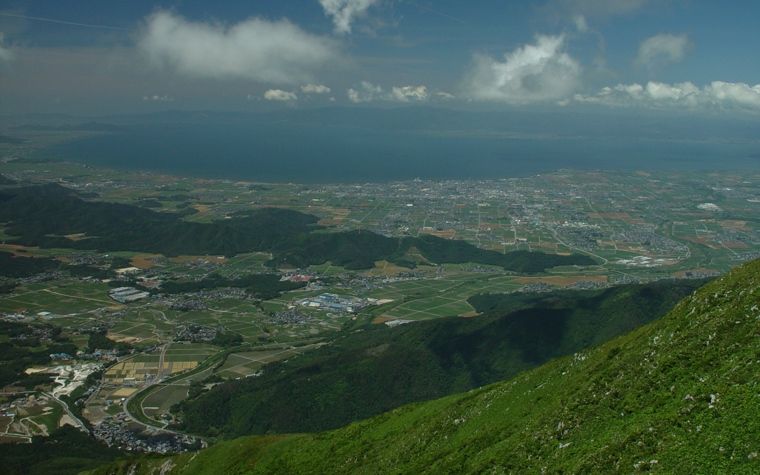 Lake Biwa seen from Mount Ibuki, Shiga prefecture, Japan.